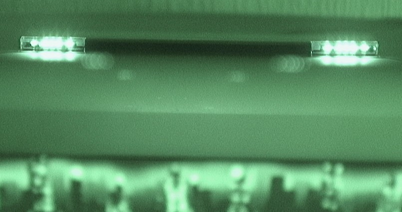 Wii Sensor Bar near infra-red shot (RVL-014)